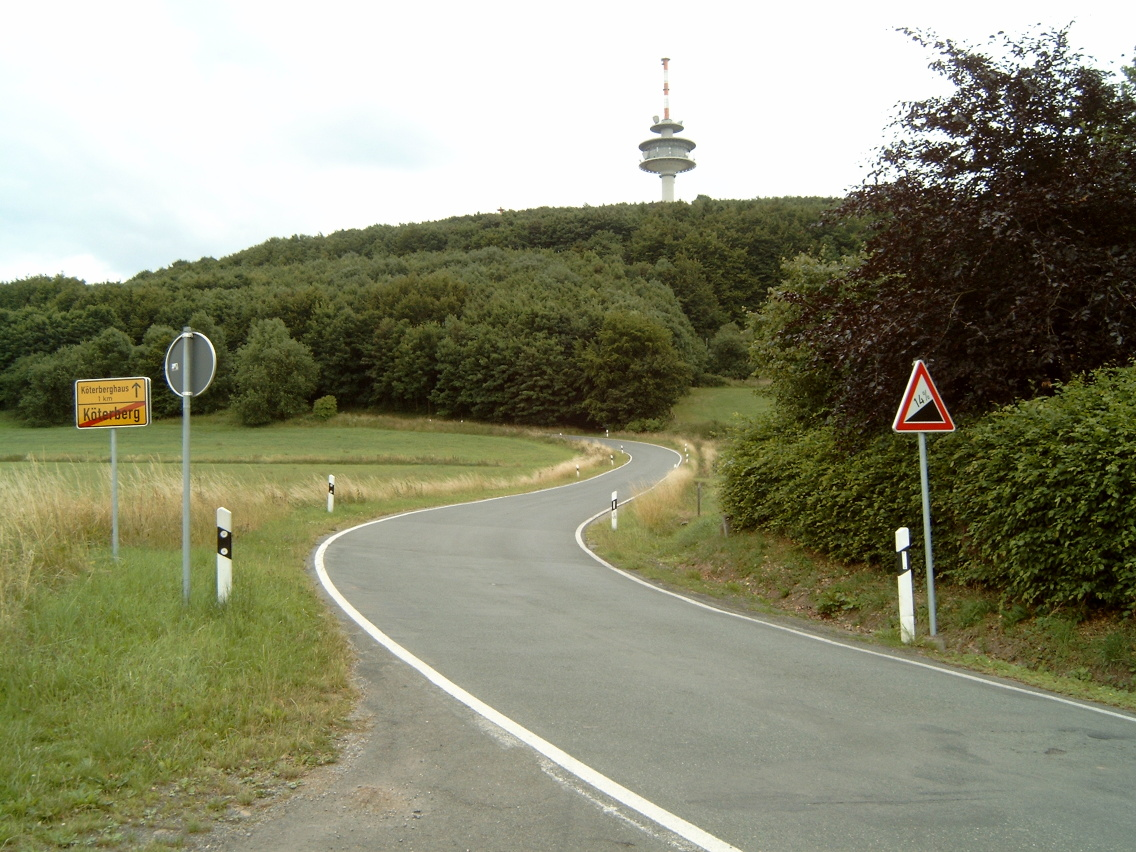 Road to the peak of Köterberg Mountain near Lügde, District of Lippe, North Rhine-Westphalia, Germany.